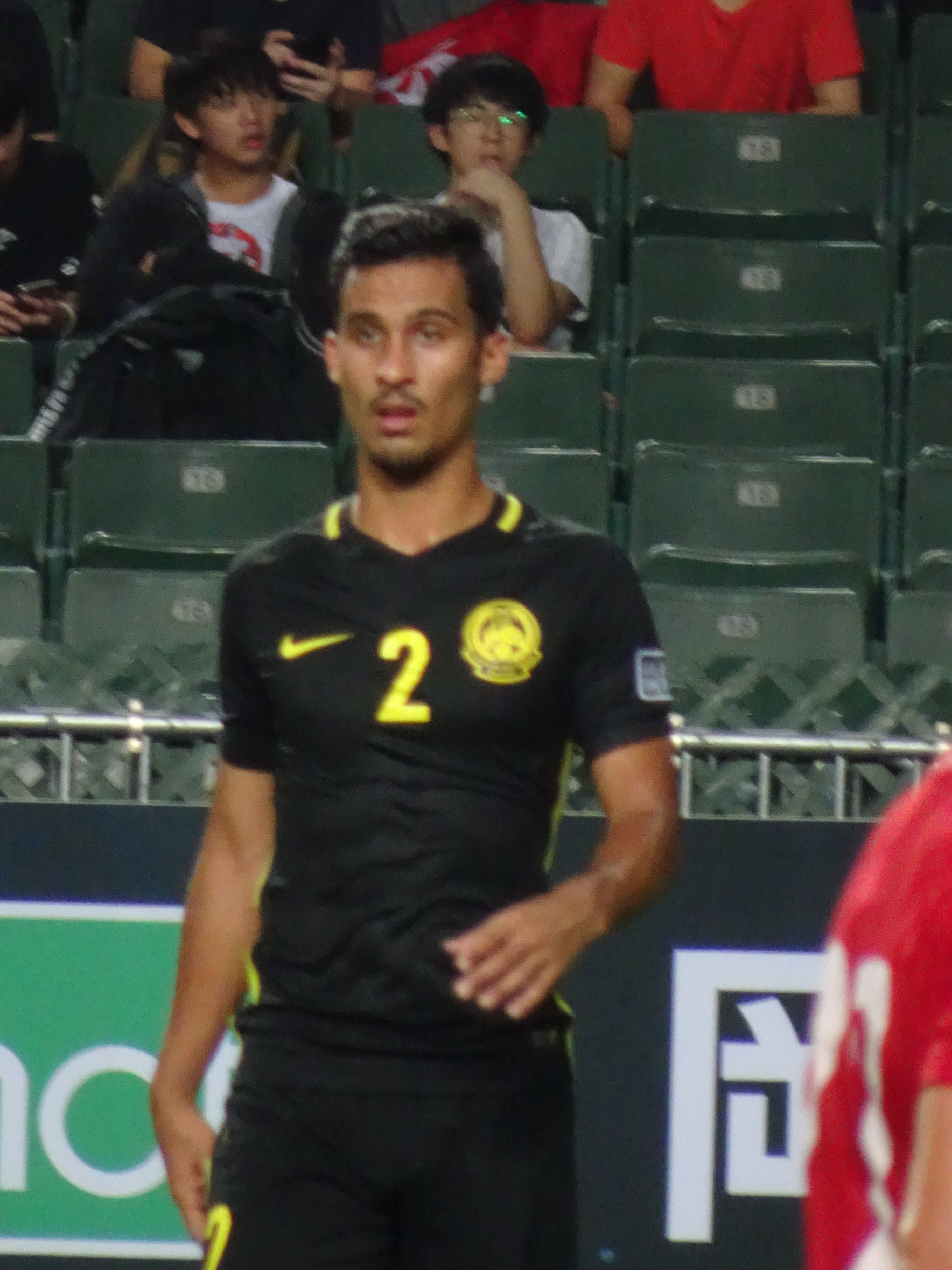 Matthew Davies (10 Oct 2017, Asian Cup Qualifier, Hong Kong vs Malaysia, Hong Kong Stadium)